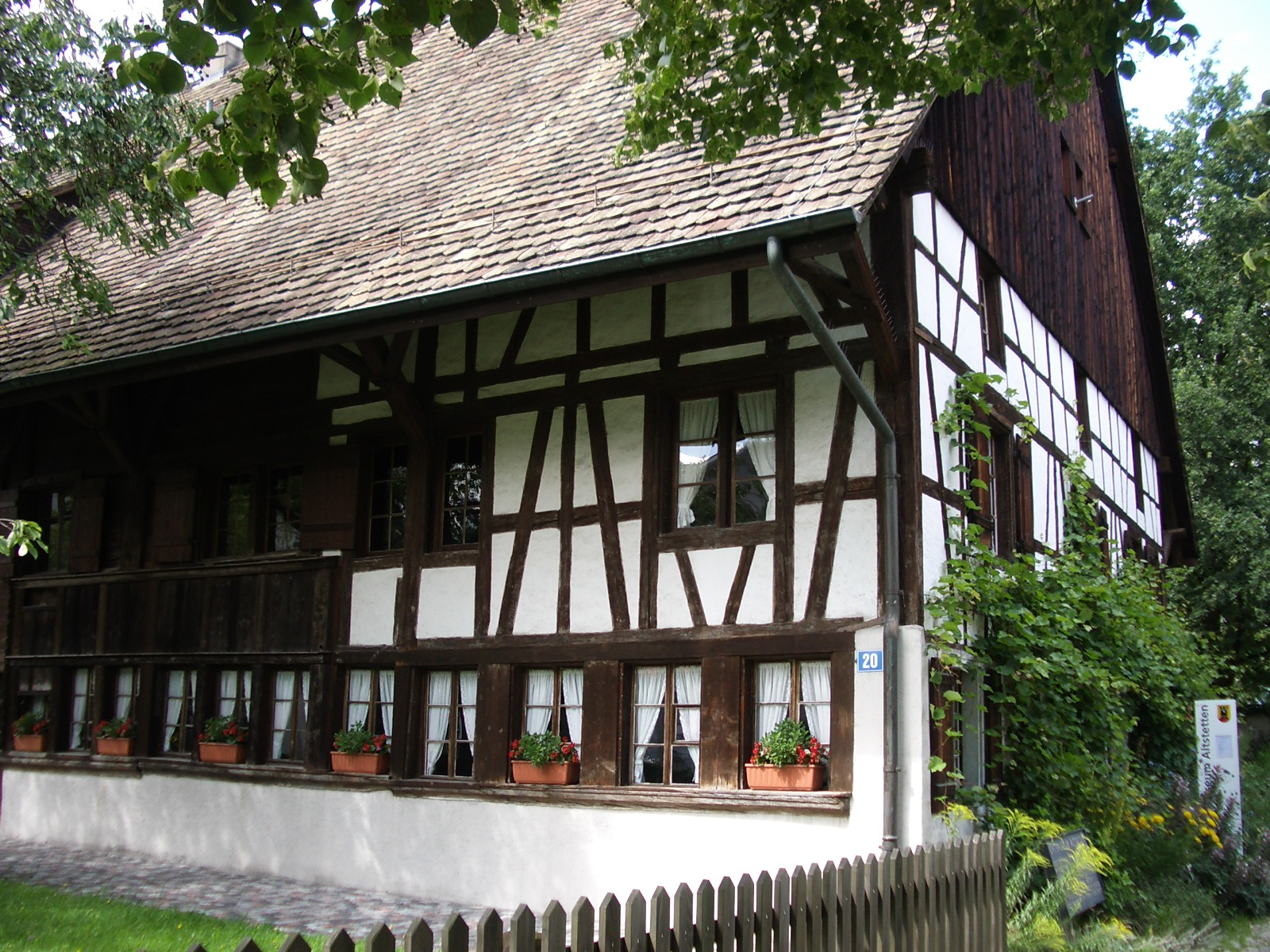 Zurich-Alstetten ZH, Switzerland